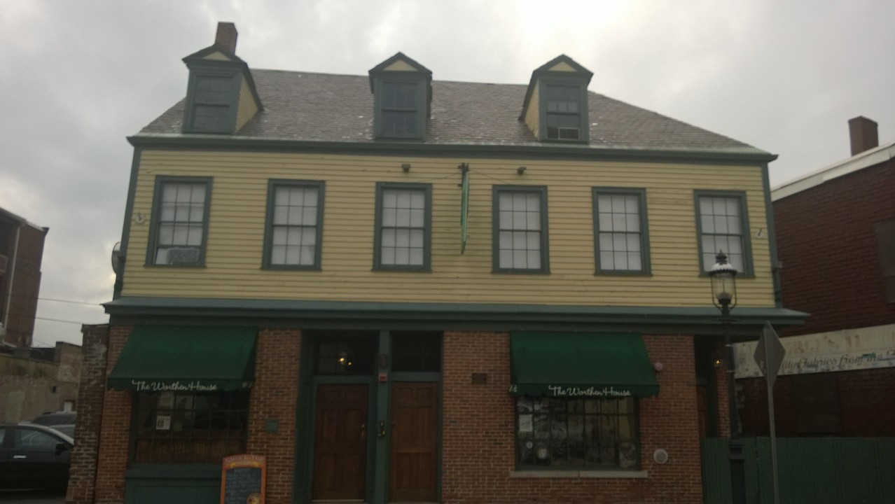 The Worthen House on Worthen Street, Lowell, Massachusetts. Oldest bar in Lowell continuously used as a public tavern since it was built in 1834. Part of the Lowell National Park and down the street from the Whistler birthplace. In the NRHP for its unusual pulley-driven fan system, which is one of only four in the United States and the only existing set known to be in its original location in the country. It can be turned on at a patron’s request. The fan was originally propelled by steam and served to keep flies off the dry goods. Today it is powered by electricity.